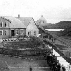 Lækjargata in Reykjavik. Lime kiln in background.